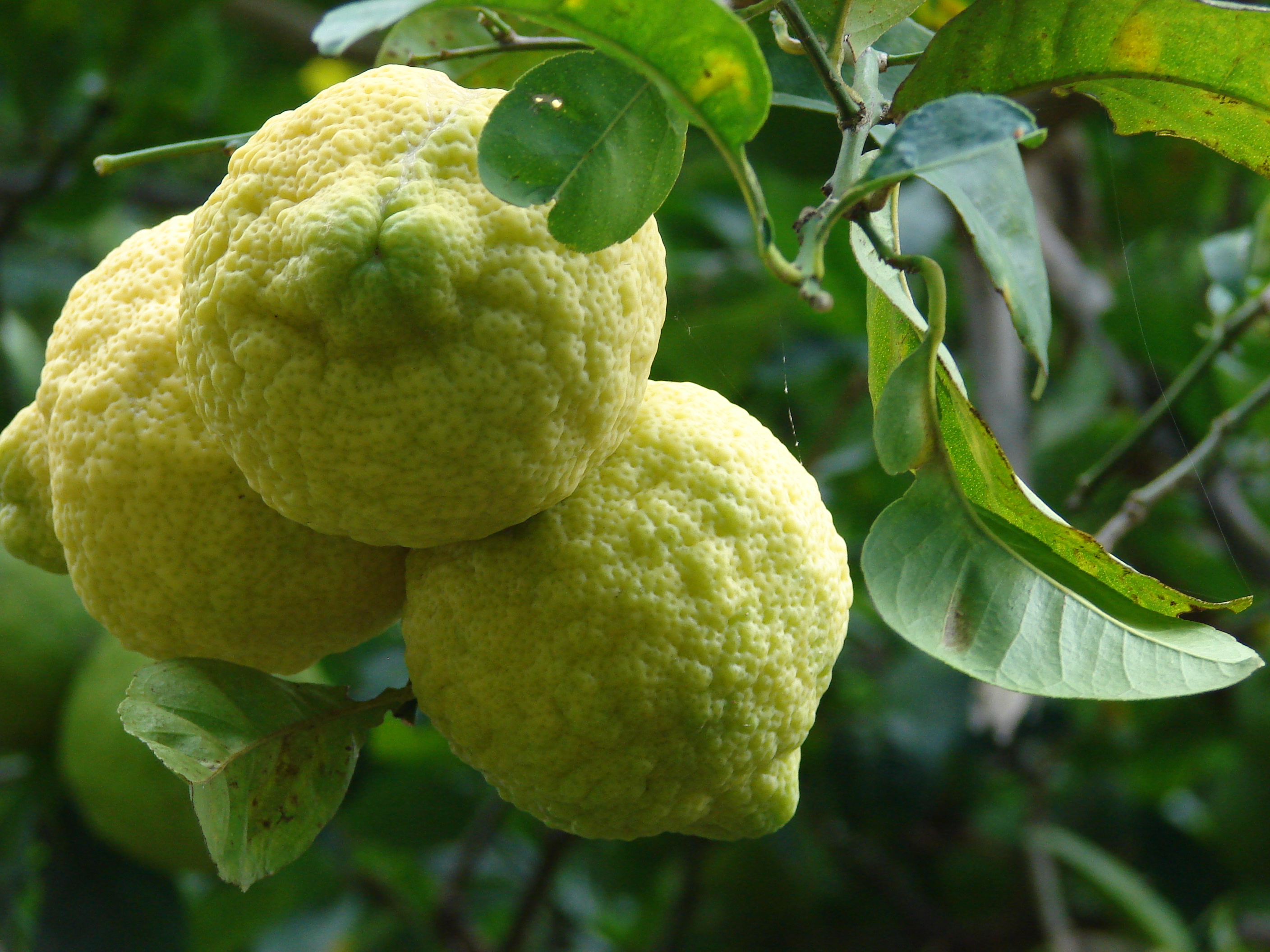 Citrus jambhiri (fruit). Location: Maui, Makawao